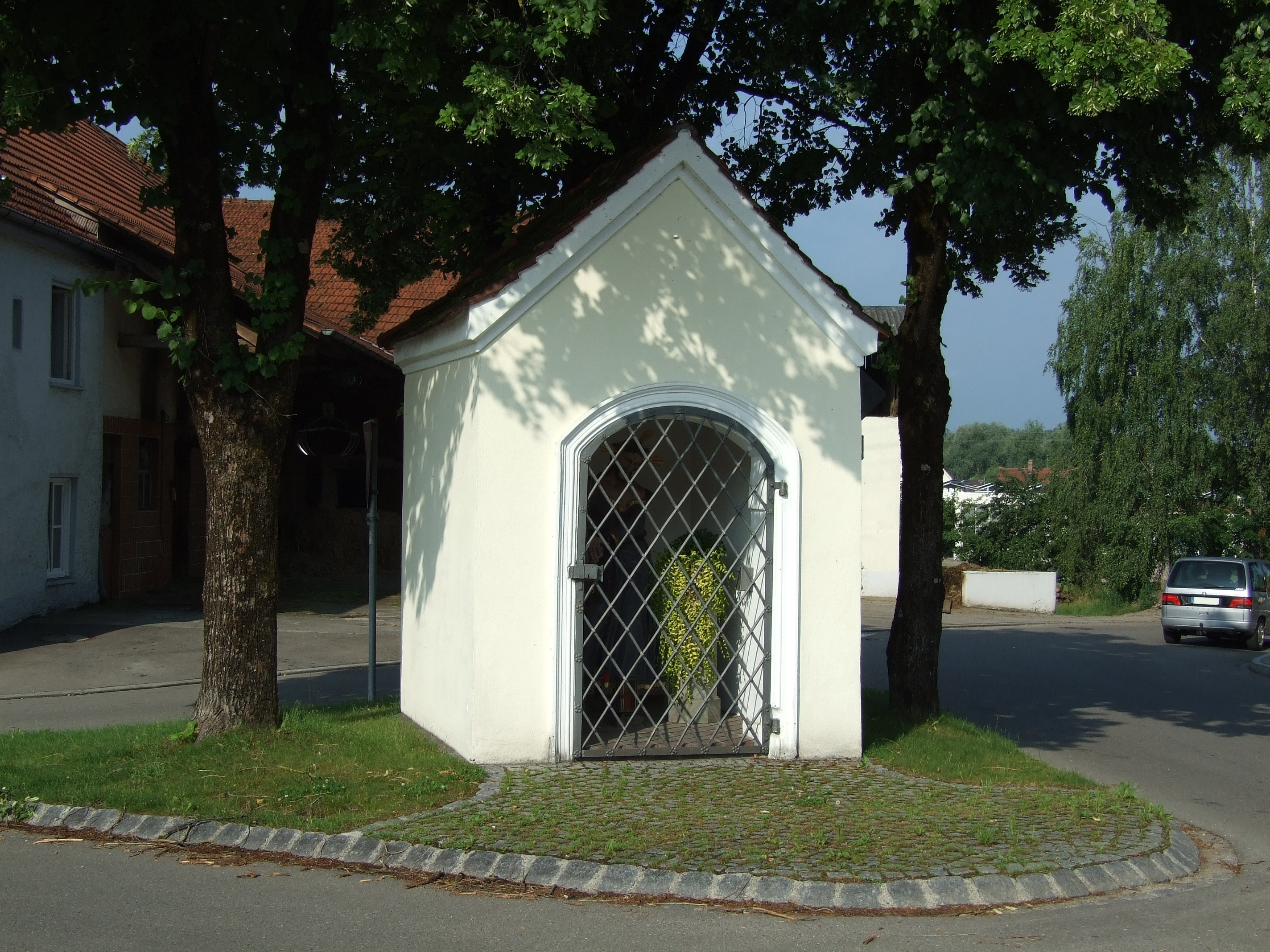 Babenhausen (Swabia)